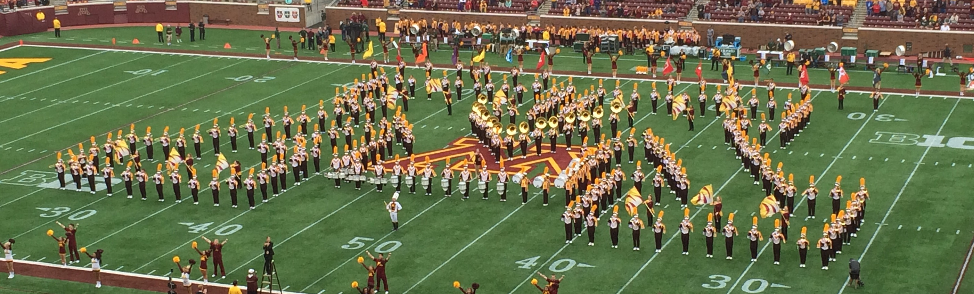 The University of Minnesota Marching Band in the Block M formation during their pregame show